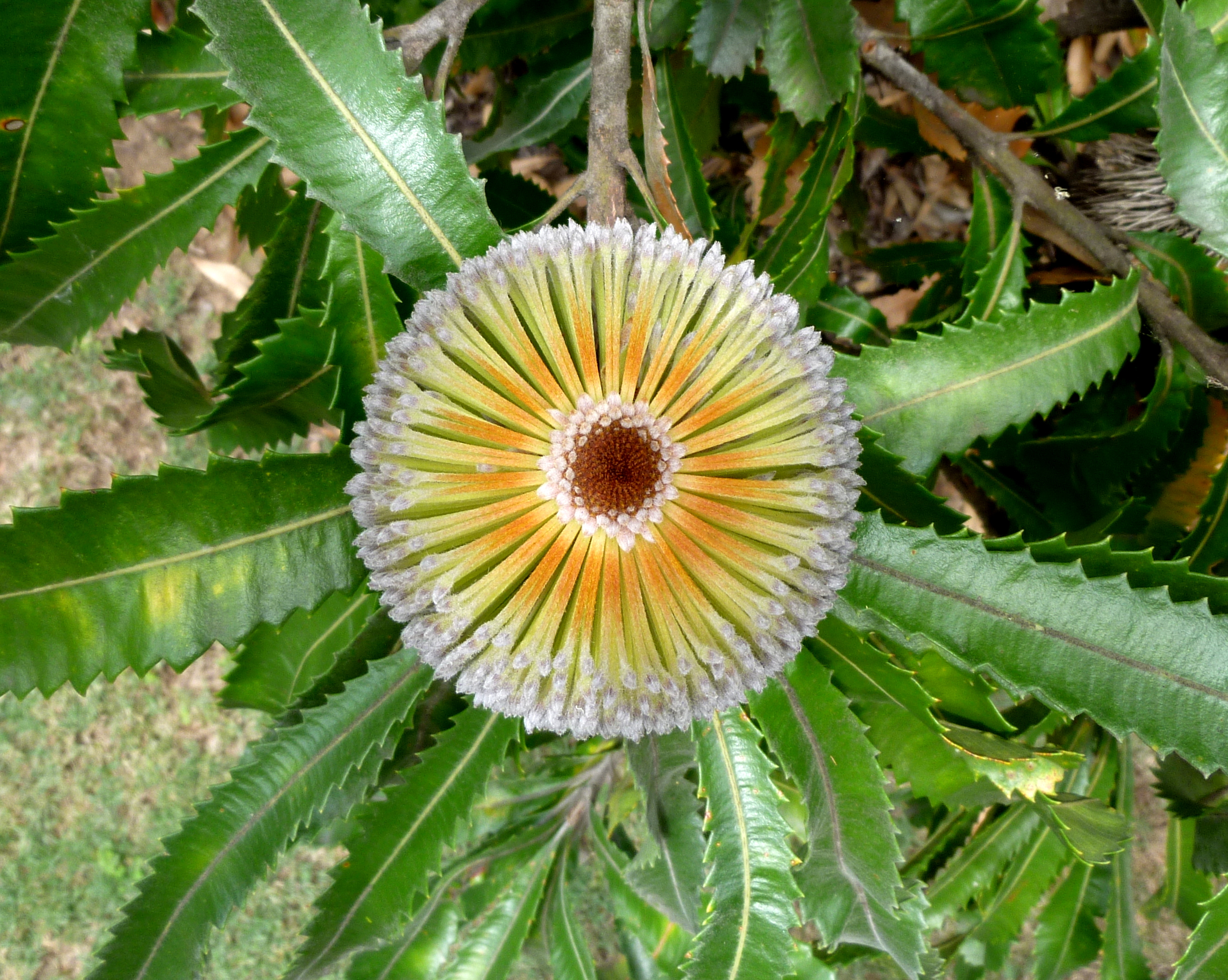 Banksia sp from above